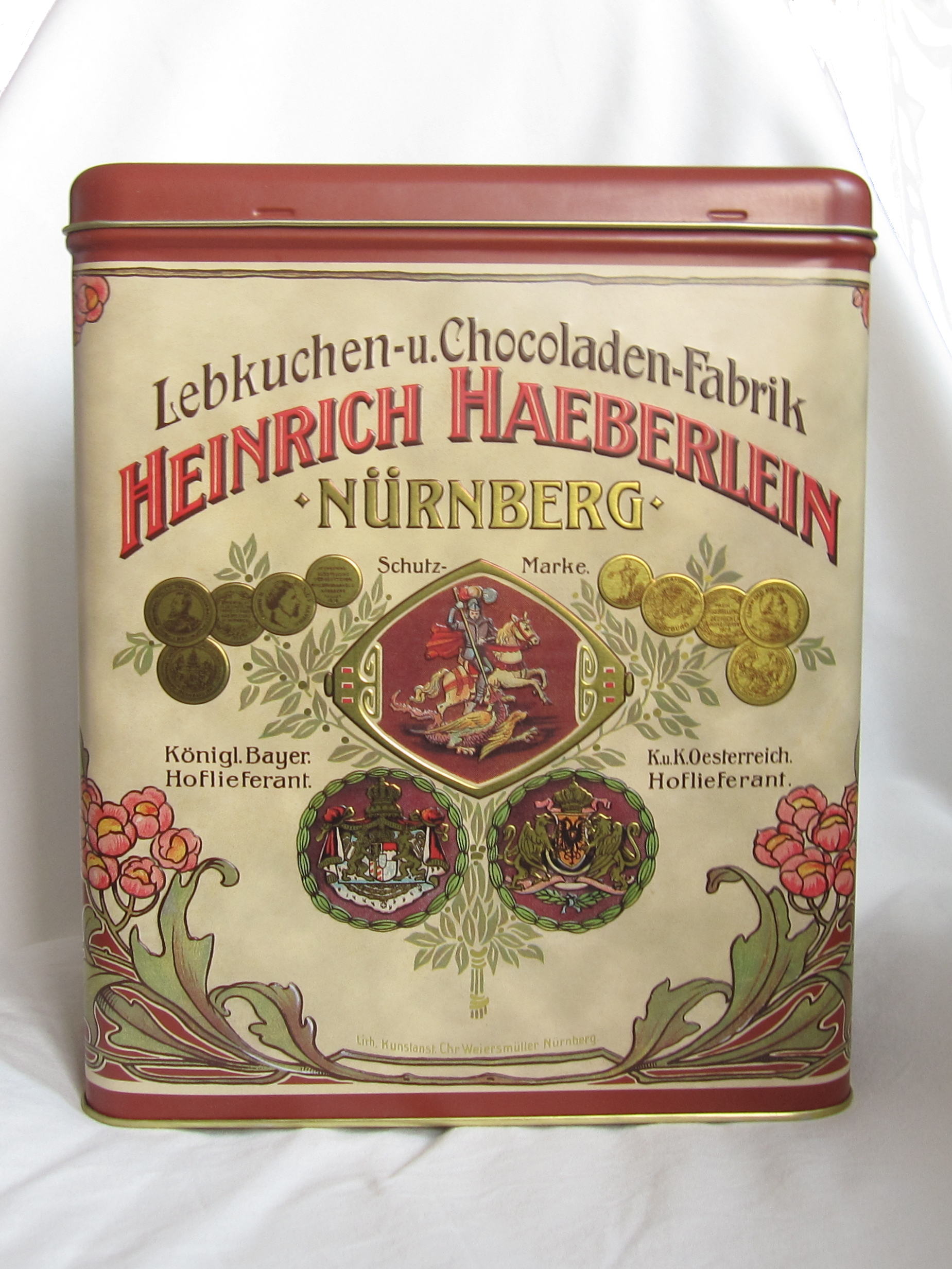 Tin box for ginger bread by Heinrich Haeberlein.